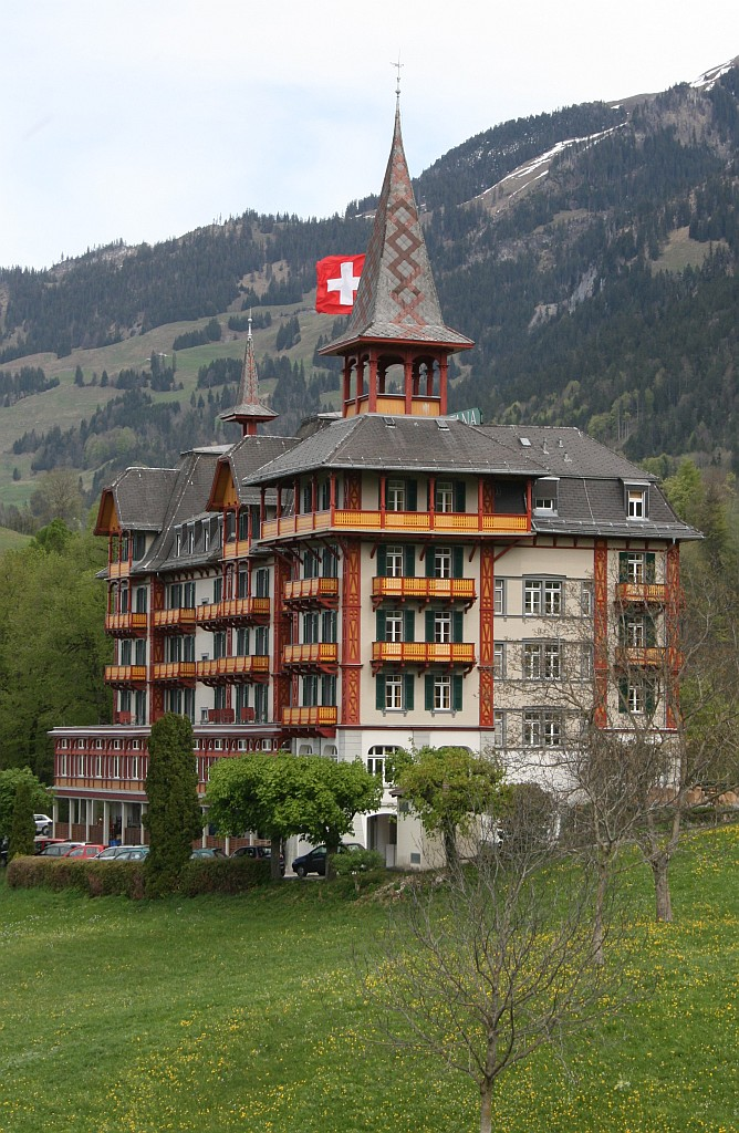 Art Nouveau hotel "Paxmontana" in Flüeli-Ranft, Switzerland; side view